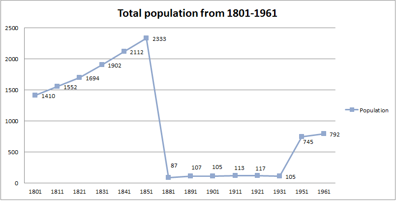 A graph showing the population of the parish Bridekirk from 1801 to 1961.